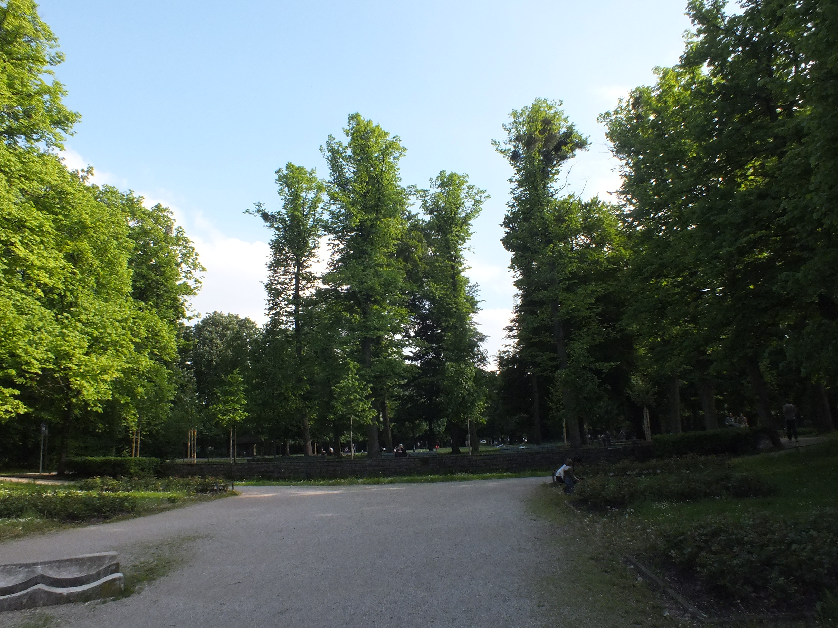 Park in Munich